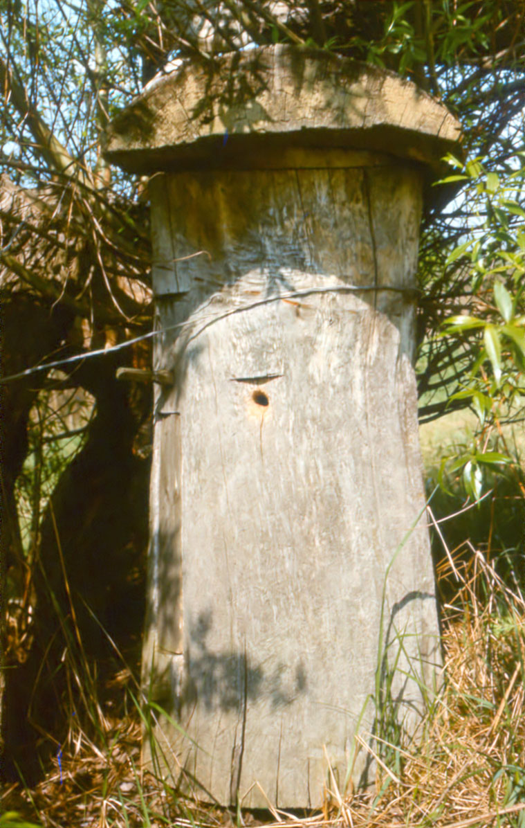 Beehive near Turaw, Belarus